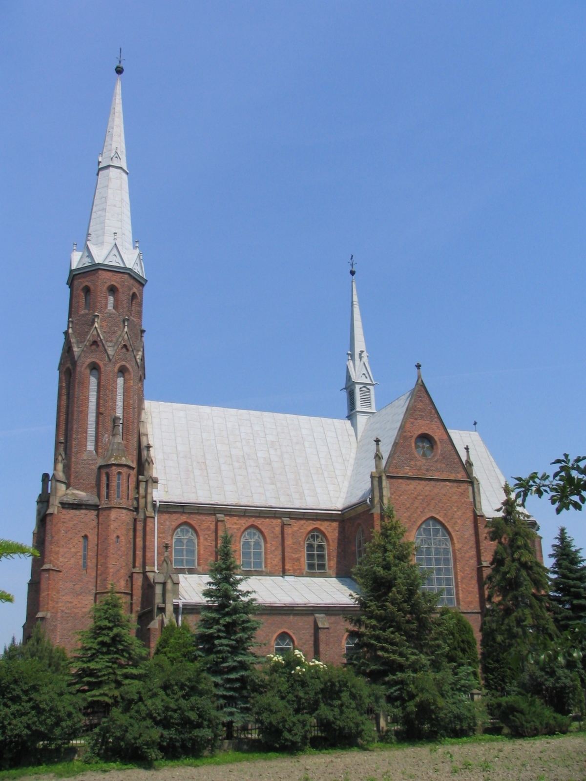 Poland, Sękowa, St. Joseph Roman-Catholic Church